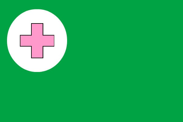 Modifications to the flag , last one was the high school, nope the Town of Arma